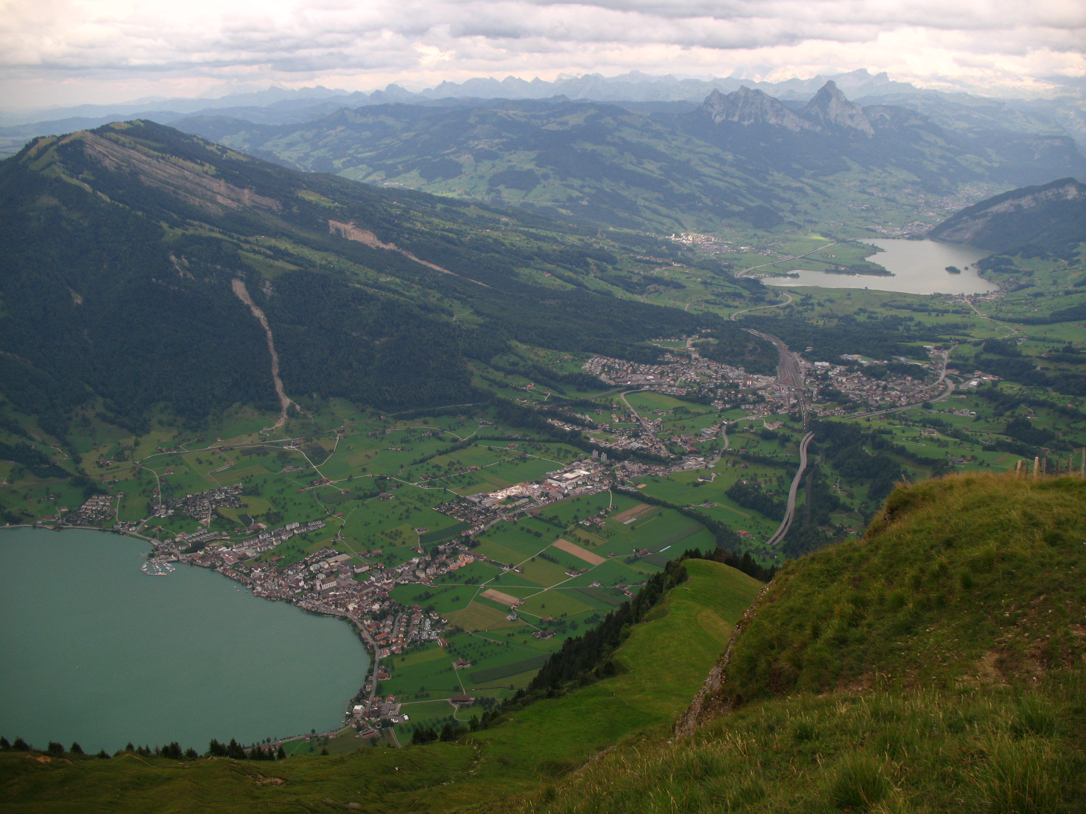 Arth-Goldau viewed from the summit of Rigi, Switzerland